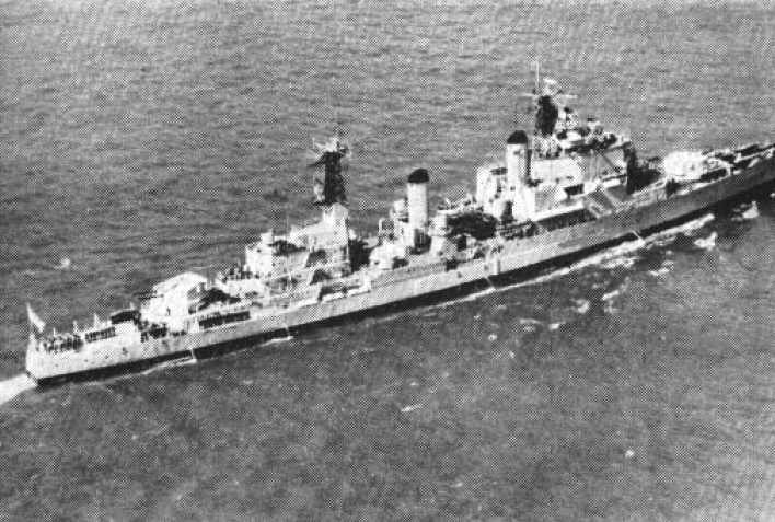 The Royal Navy light cruiser HMS Tiger (C20) underway, circa 1961.